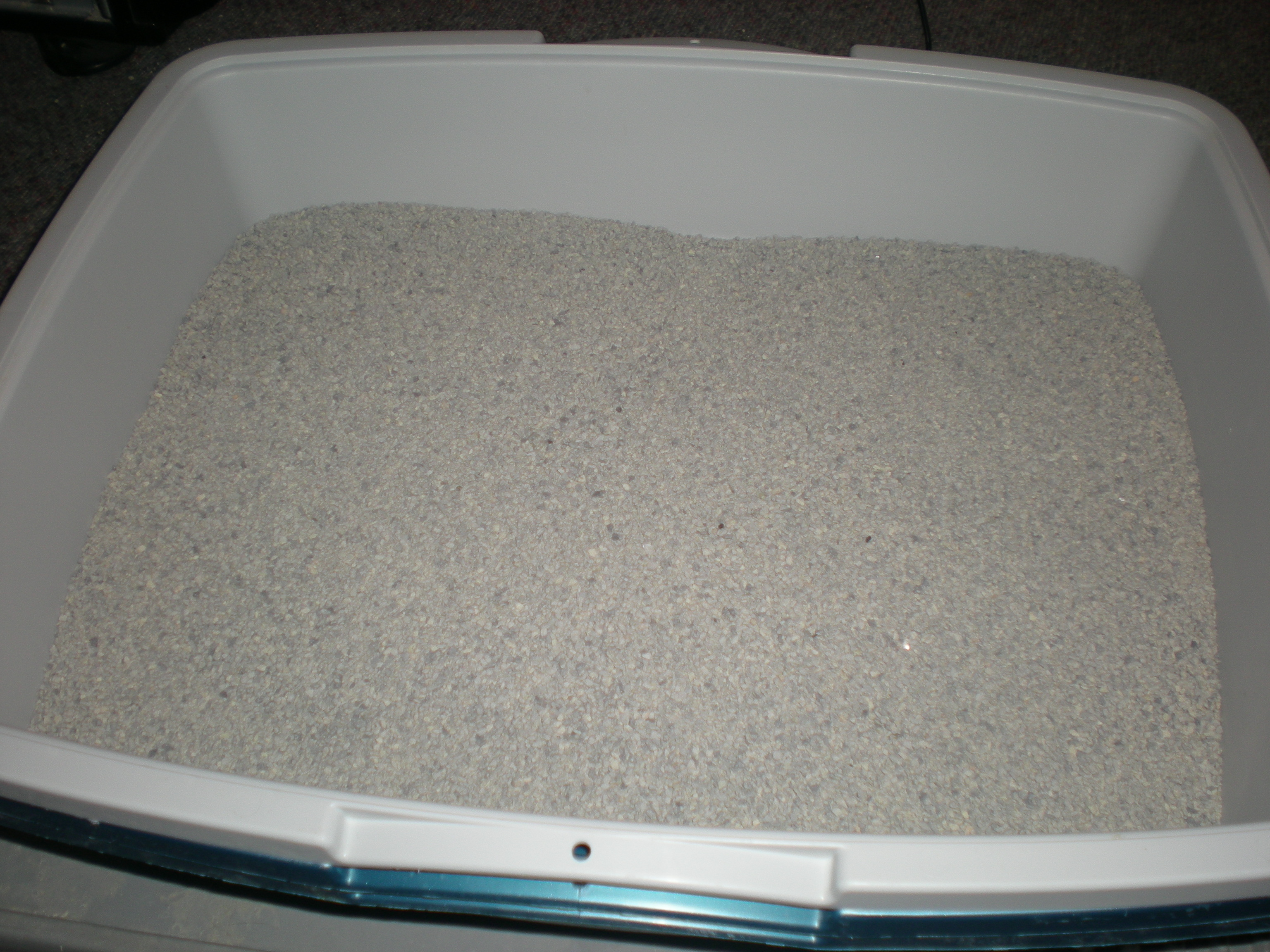 Cat litter in box